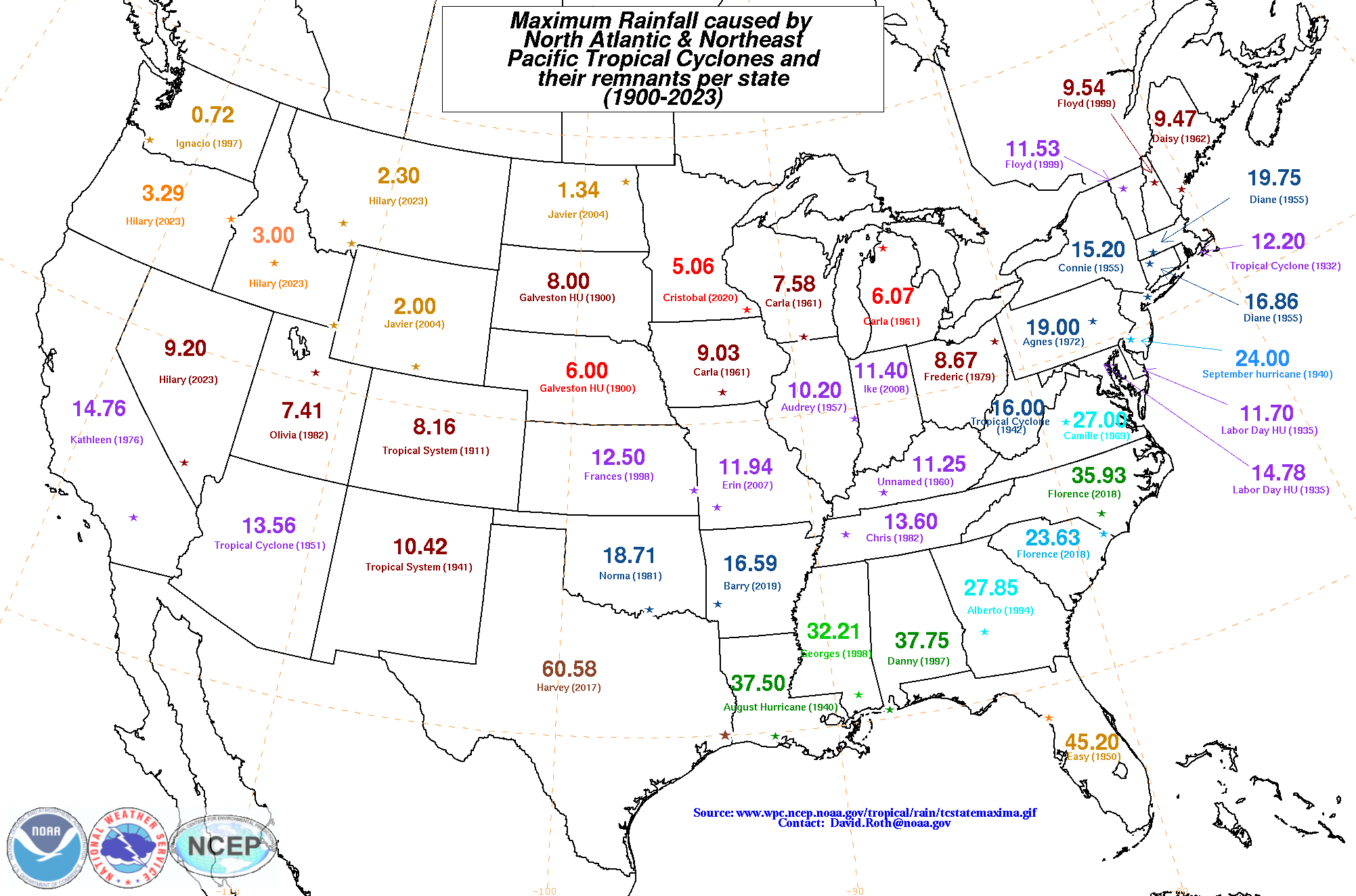 Image of the recorded maximum tropical cyclone rainfall amounts in each US state. In 2017, Hurricane Harvey broke the all-time record across the US, dropping over 60 inches (152.4 cm) of rain in Nederland, Texas.